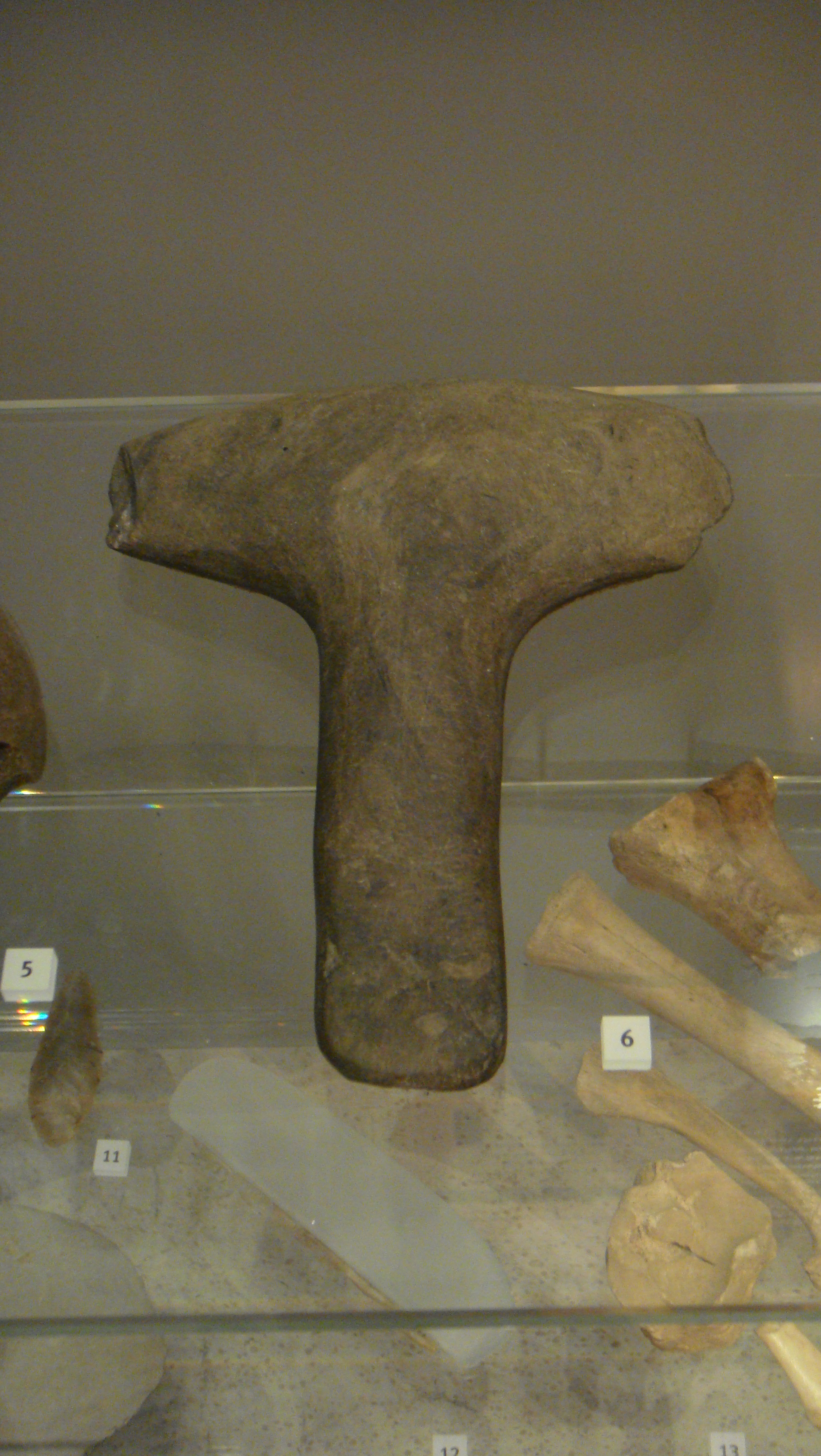 Axe from Skara Brae. Museum of Scotland